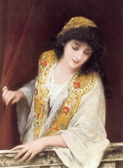 Jessica